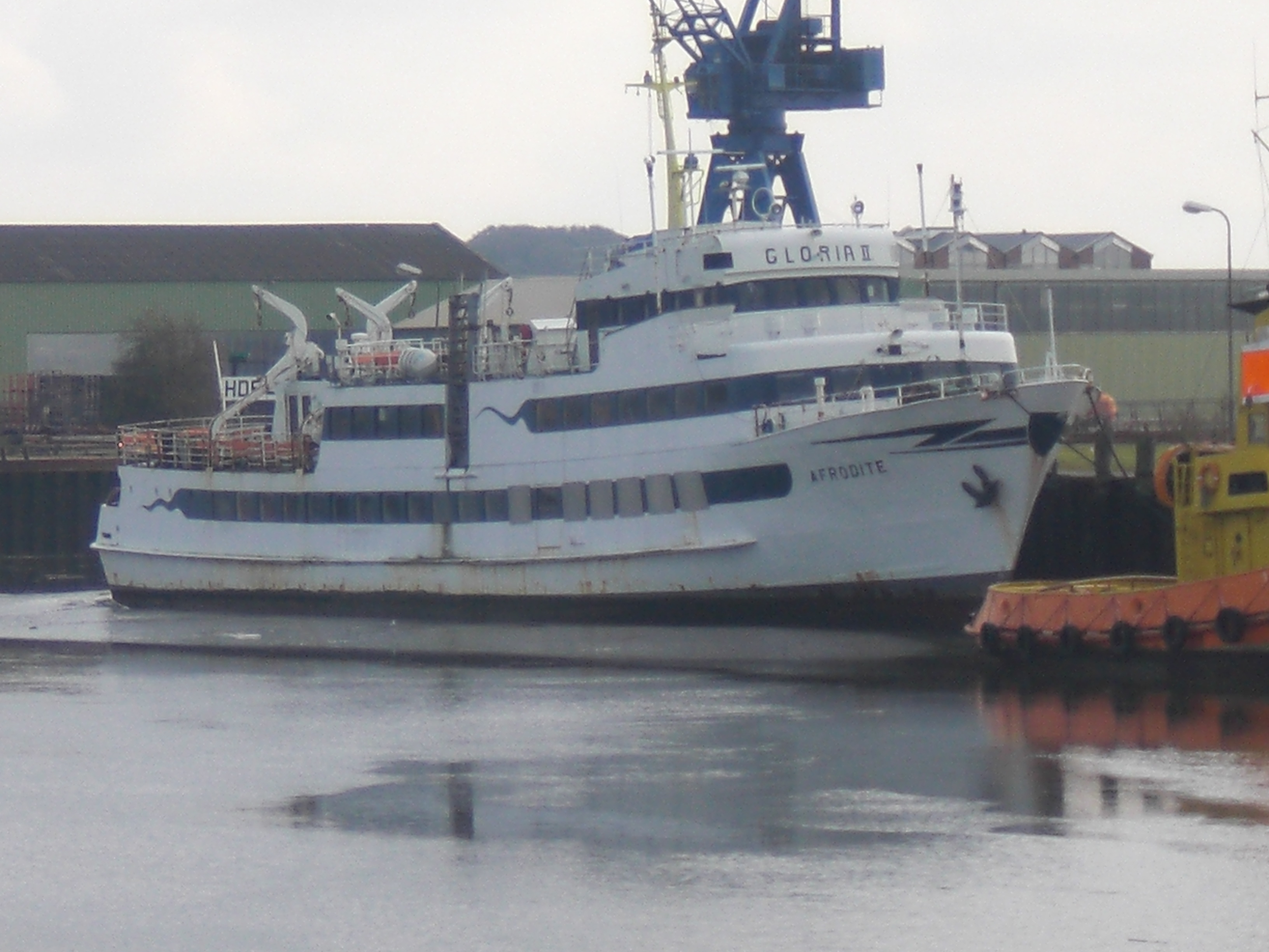 Coastal ferry Afrodite, ex Gloria II, ex Atlantis II, ex Nordlicht II at Husum shipyard IMO-nummer: 6412413 MMSI-nummer: 671098000 Roepnaam: 5VAM3 Lengte: 55 m Breedte: 8 m